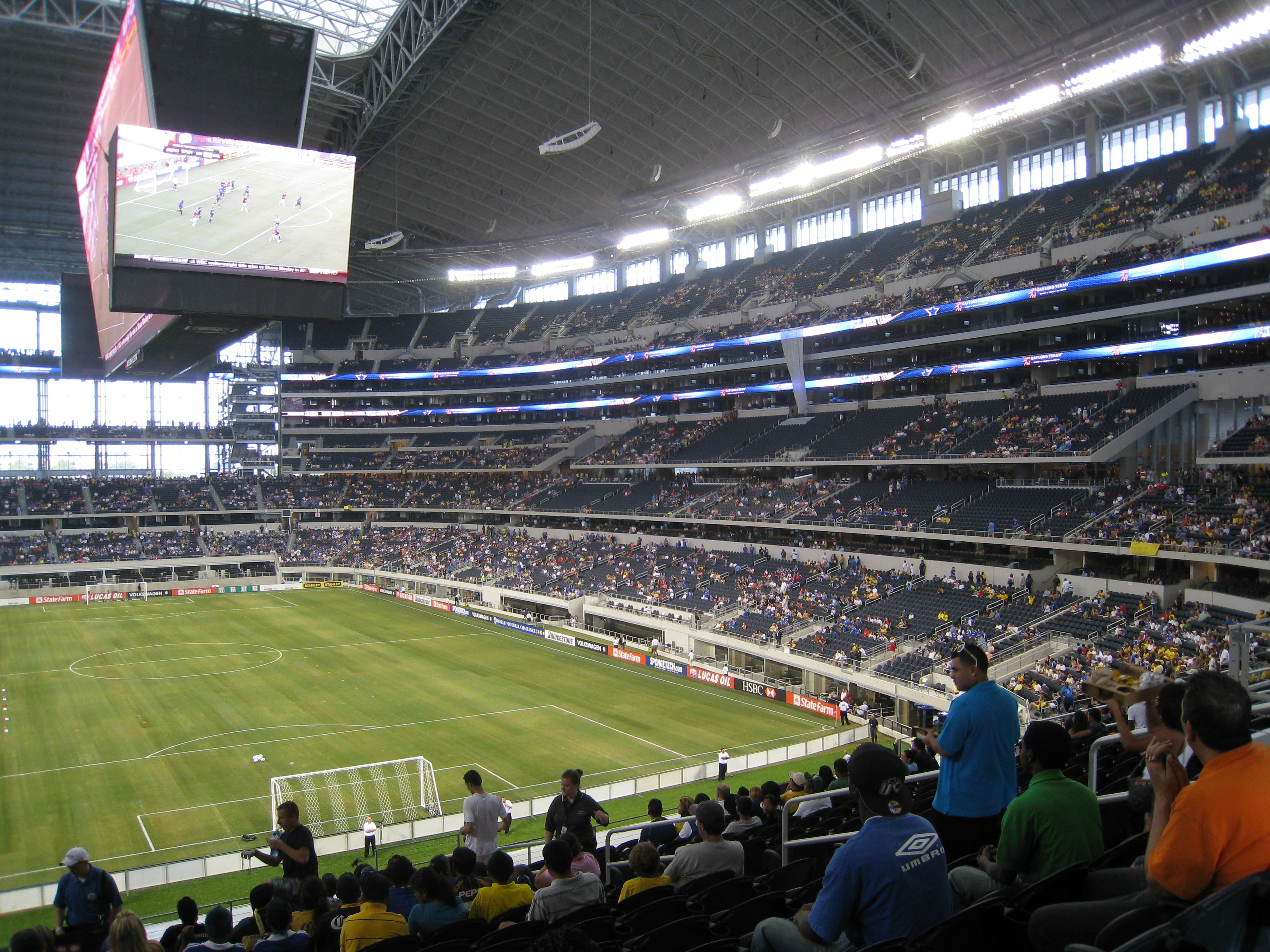 Cowboys_stadium_inside_view_3 chelsea vs club america soccer game